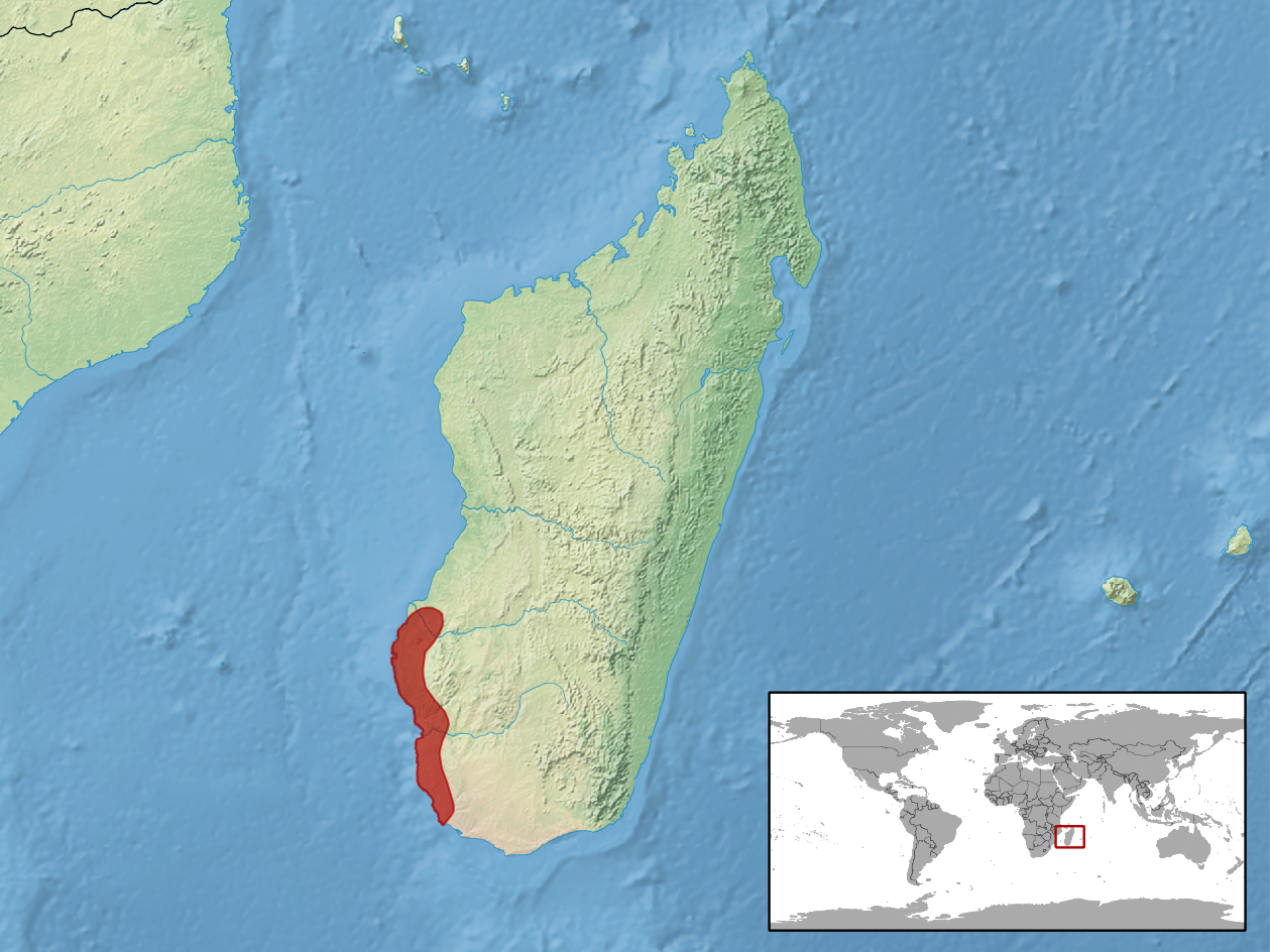 geographic distribution of Amphiglossus andranovahensis